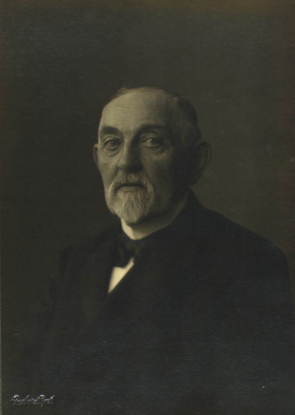 Danish teacher, politician, MP Anders Thomsen (1842-1920), speaker of the Landsting